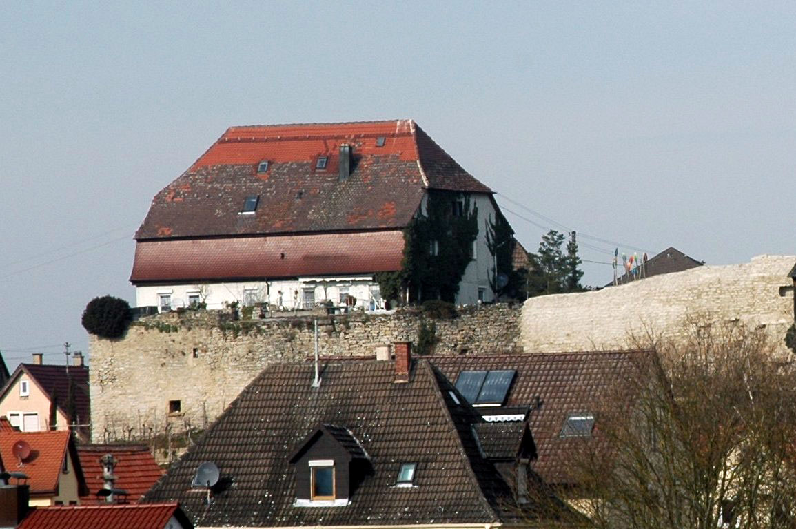 at the city wall of Lauffen am Neckar, house Heilbronner Str. 24